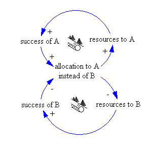 Causal loop diagram - system archetype "Success to successful"